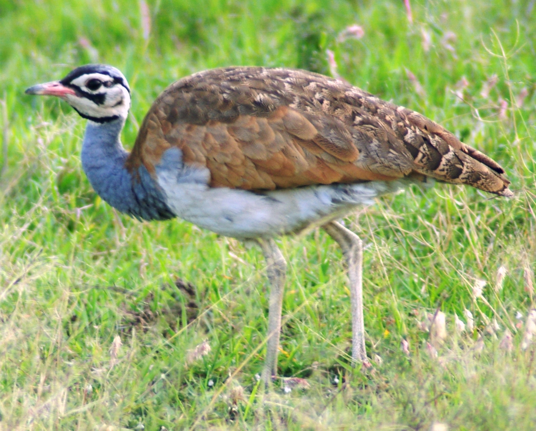 Adult male White-bellied Bustard, Eupodotis senegalensis canicollis, Sweetwaters Game Reserve, Kenya. The time stamp is 10 hours too early.